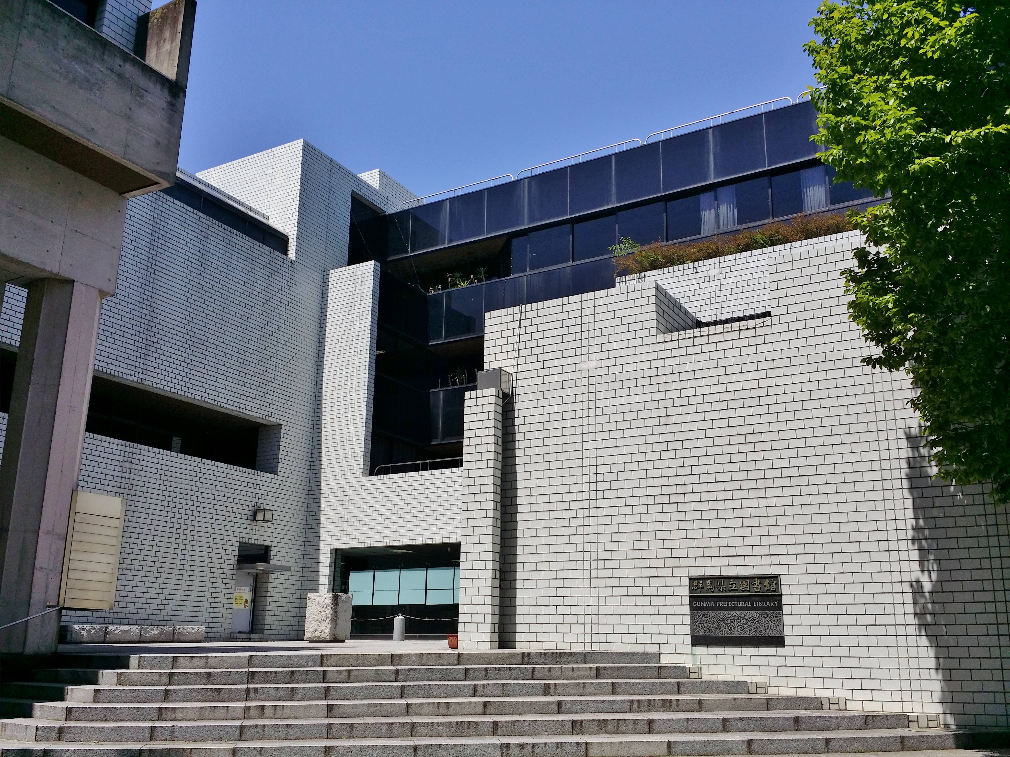 Gunma Prefectural Library.